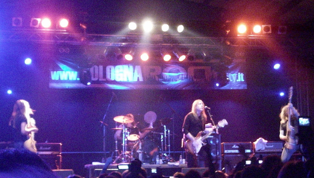 Angel Witch live at British Steel Fest in Bologna, Italy on November 07, 2010